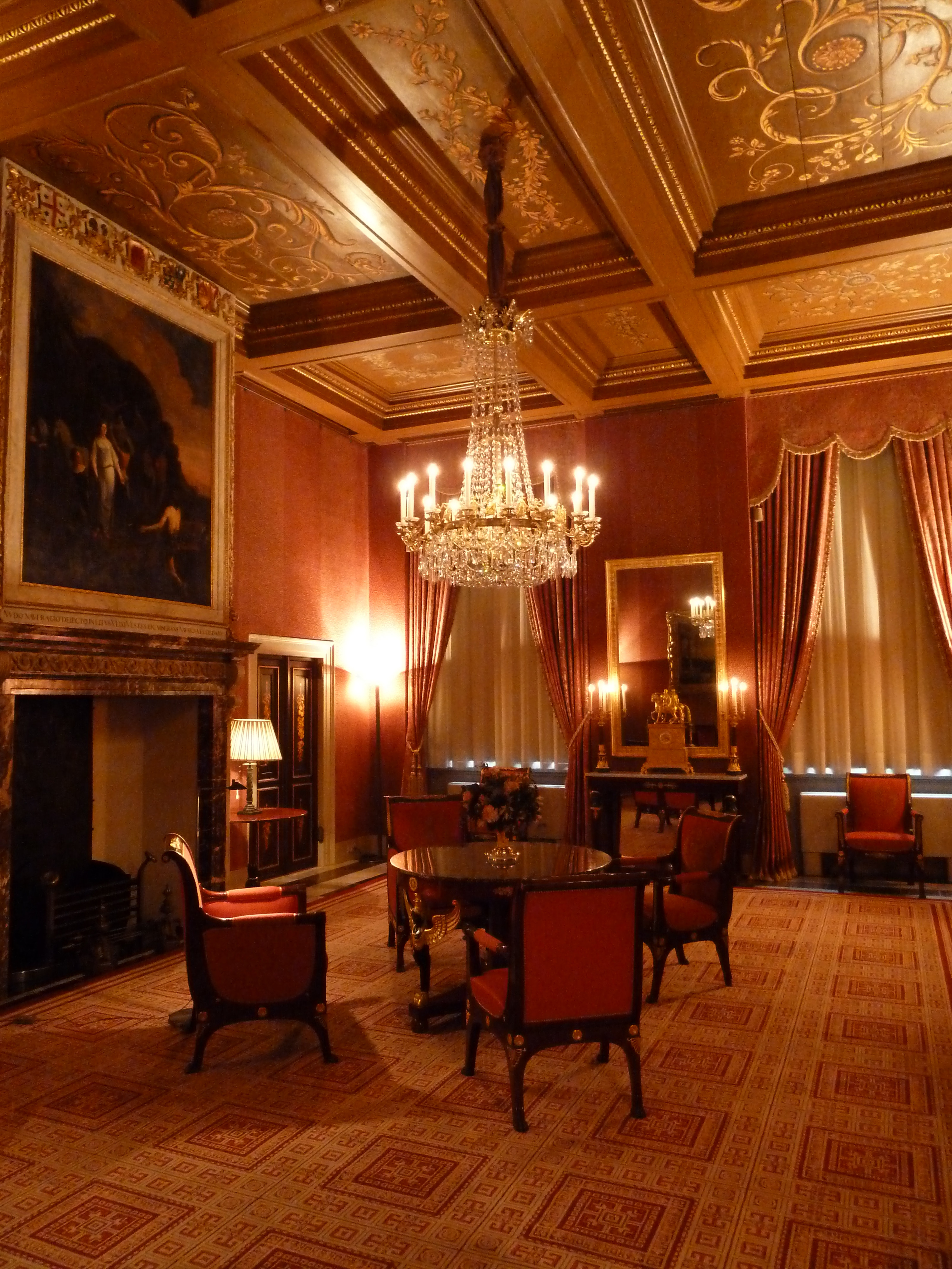 Royal Palace of Amsterdam interiors